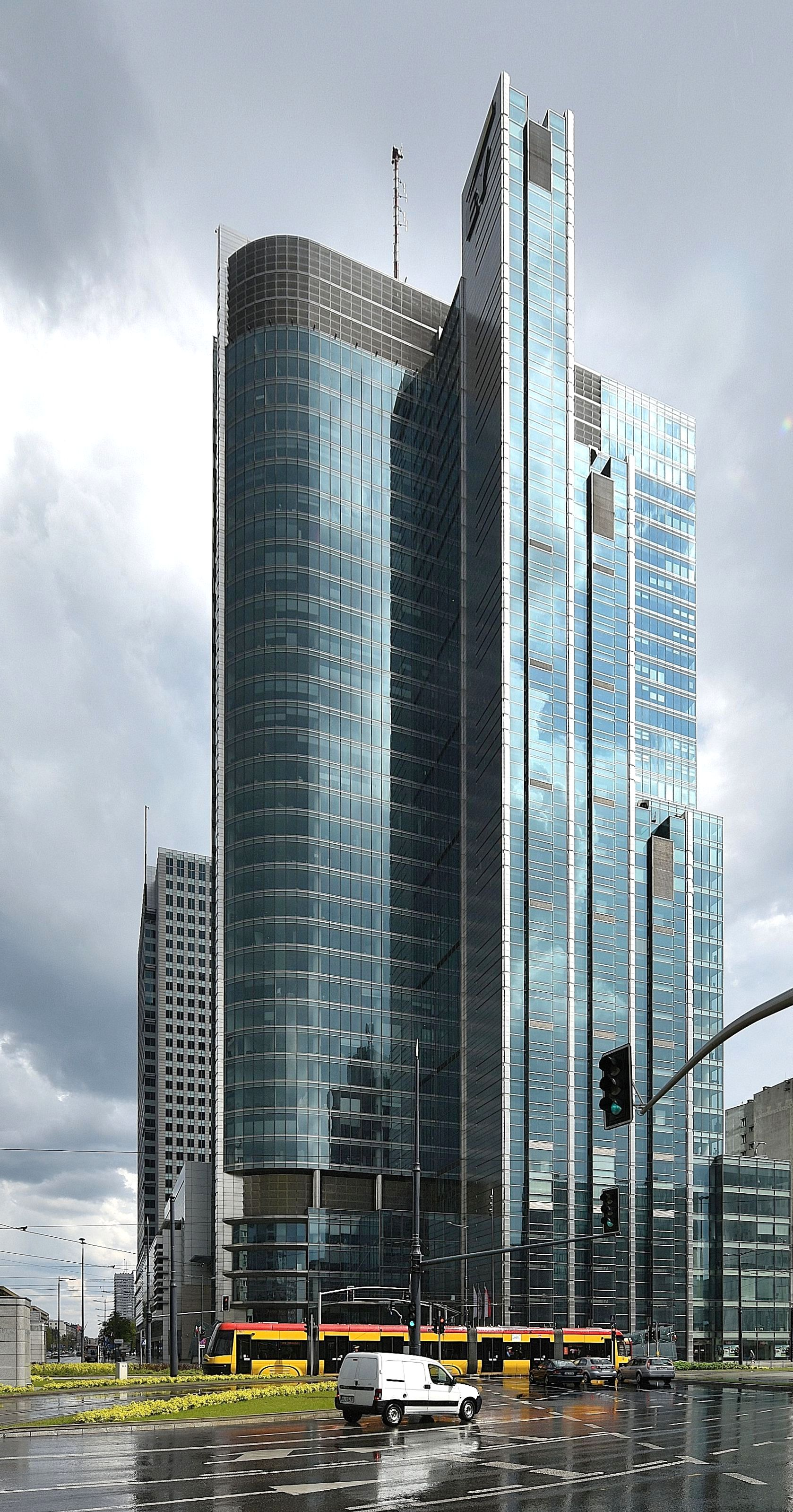 Rondo 1 in Warsaw